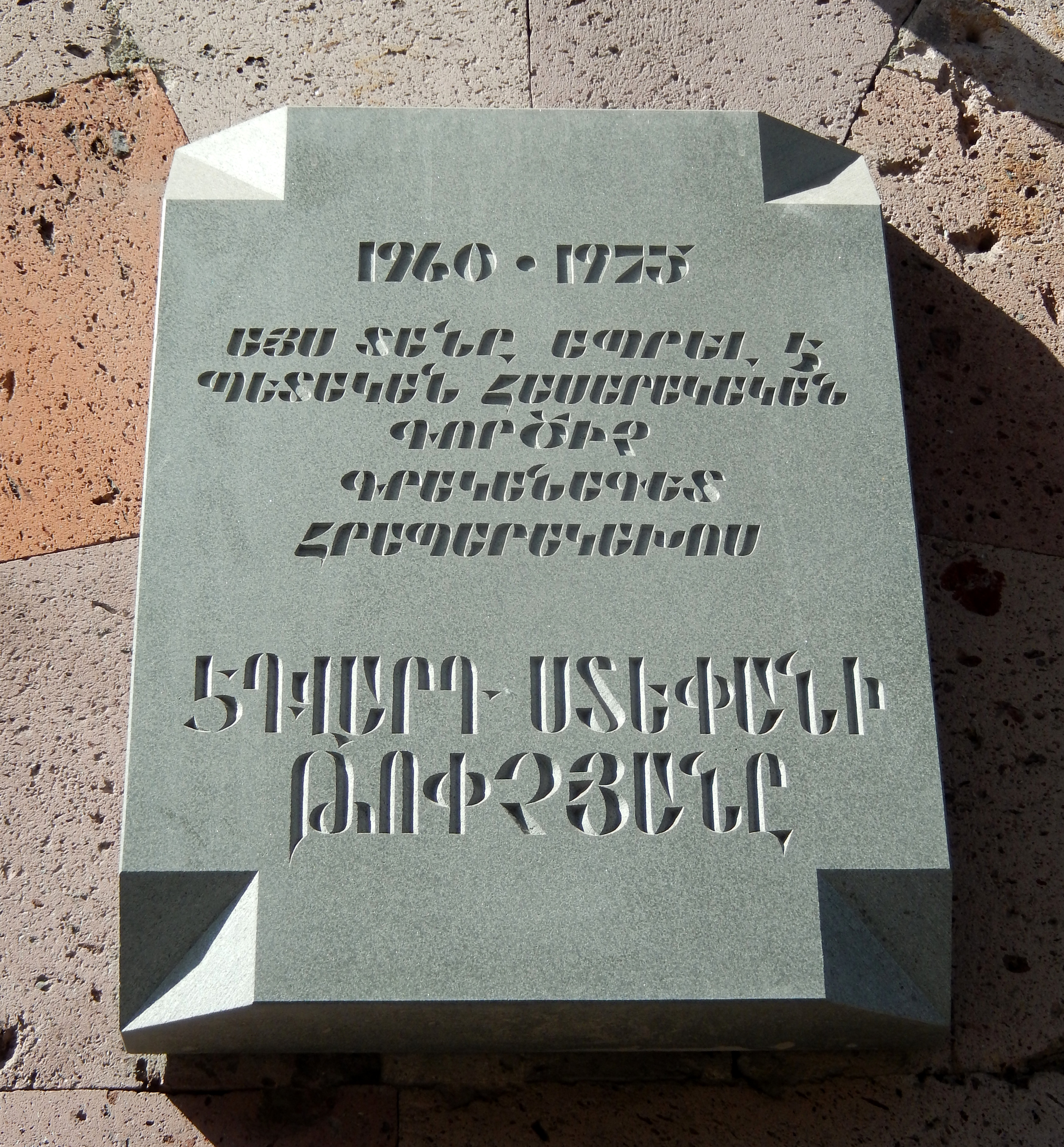 Eduard Topchyan's plaque inYerevan